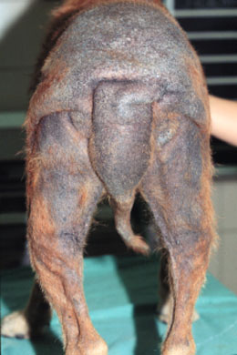 Dog with Flea Allergy Dermatitis and Malassezia dermatitis